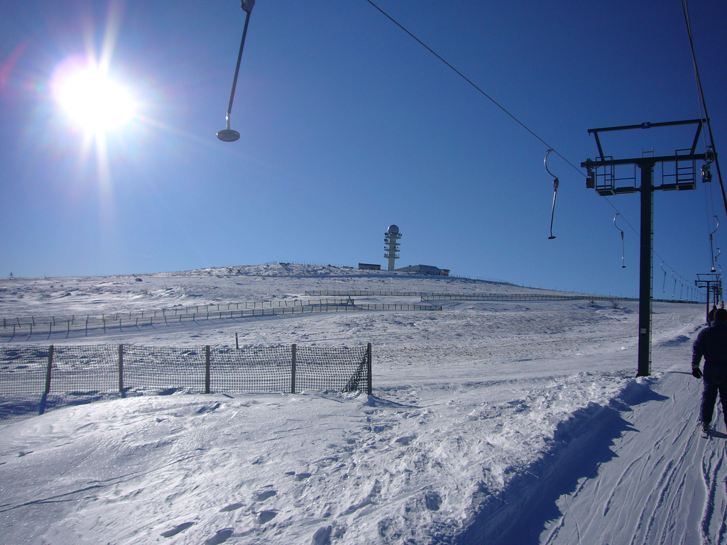 Chalmazel ski resort - Pierre-sur-Haute